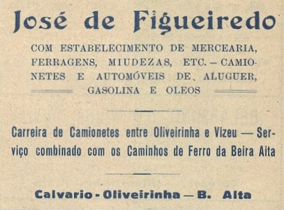 Advertisement for the José de Figueiredo company, that operated a bus service between the city of Viseu and the Oliveirinha train station, in the Beira Alta Railway, in Portugal. This image was published in the Gazeta dos Caminhos de Ferro magazine No. 1340, of 16th October 1943, and scanned by the Hemeroteca Municipal de Lisboa.